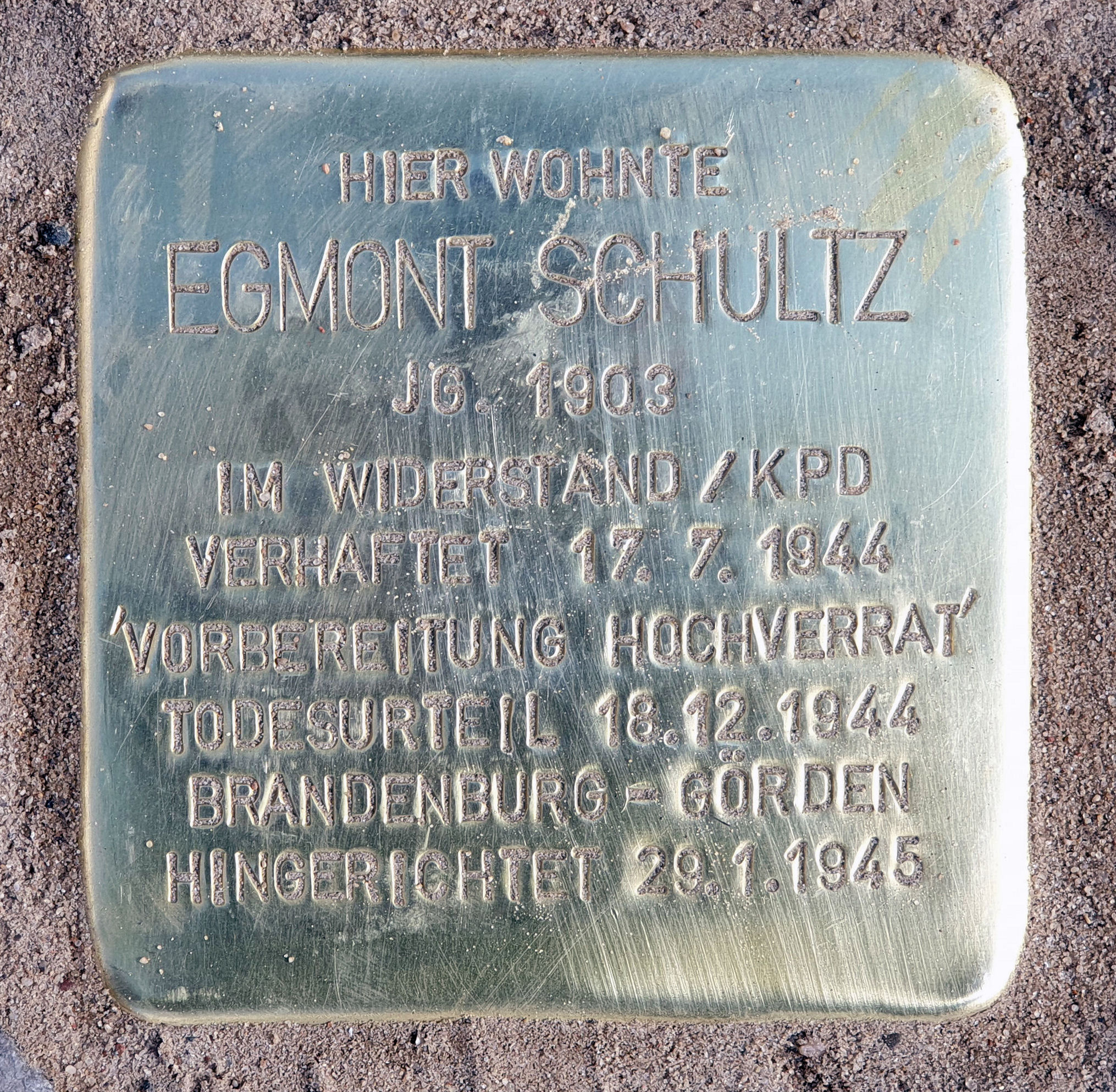 "Stolperstein" (stumbling block), Egmont Schultz, Soldiner Straße 8, Berlin-Gesundbrunnen, Germany